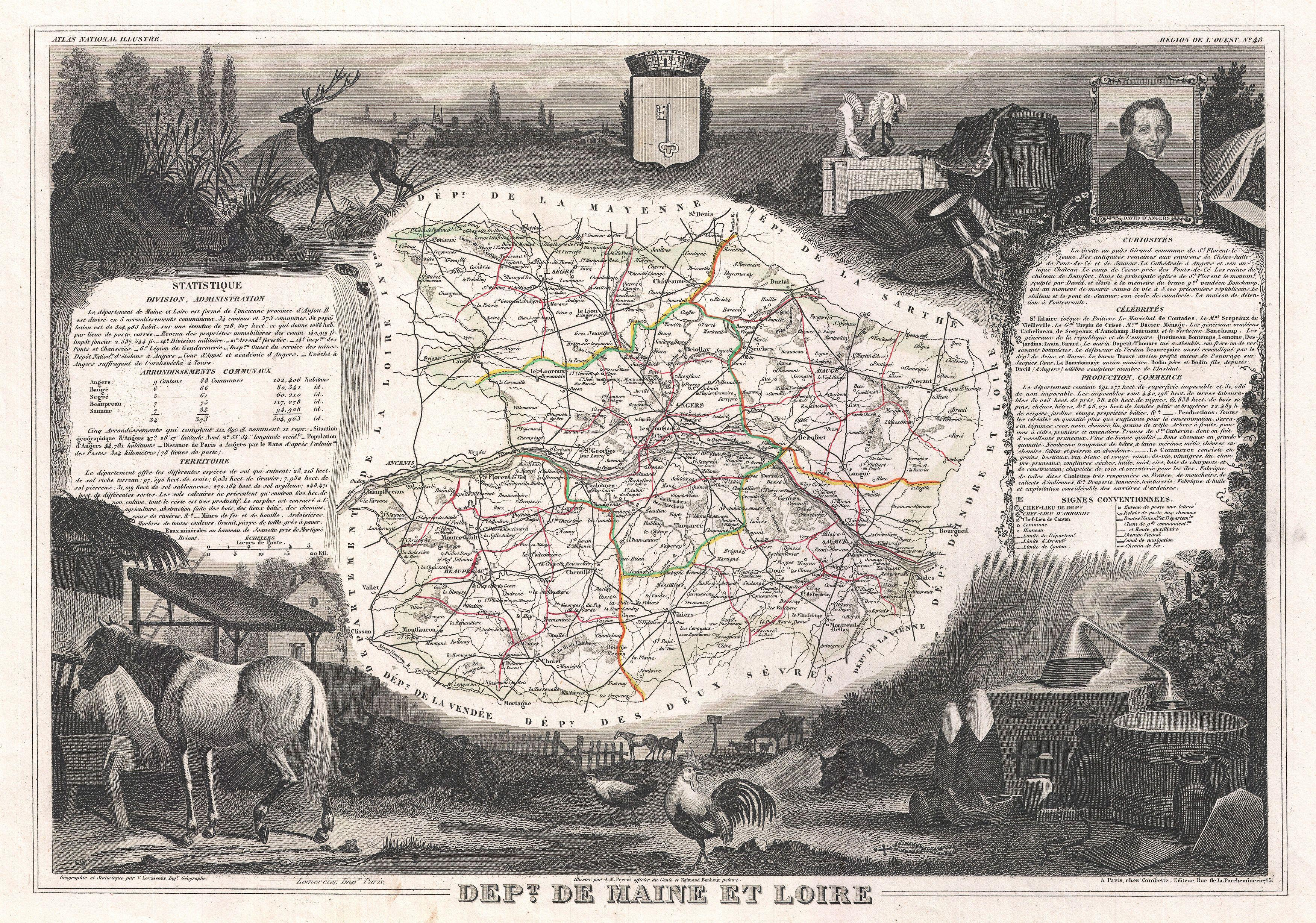 This is a fascinating 1852 map of the French department of Maine et Loire, France. This area of France is part of the Loire Valley wine region, where nearly every wine imaginable is produced. Maine et Loire itself is home to the largest vineyard in the Loire Valley. It is also known for its production of Port-Salut, a distinctive, semi-soft cow’s milk cheese. The map proper is surrounded by elaborate decorative engravings designed to illustrate both the natural beauty and trade richness of the land. There is a short textual history of the regions depicted on both the left and right sides of the map. Published by V. Levasseur in the 1852 edition of his Atlas National de la France Illustree.